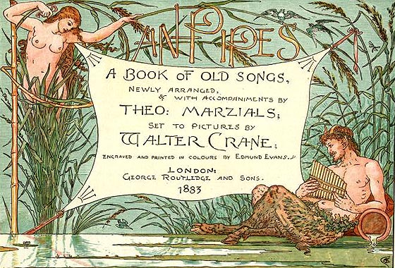 The cover of Theo Marzials's 1883 songbook "Pan Pipes"